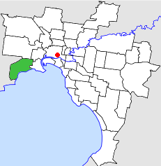 Location of the City of Altona within Melbourne.